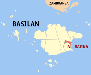 Map of the Basilan showing the location of Al-Barka